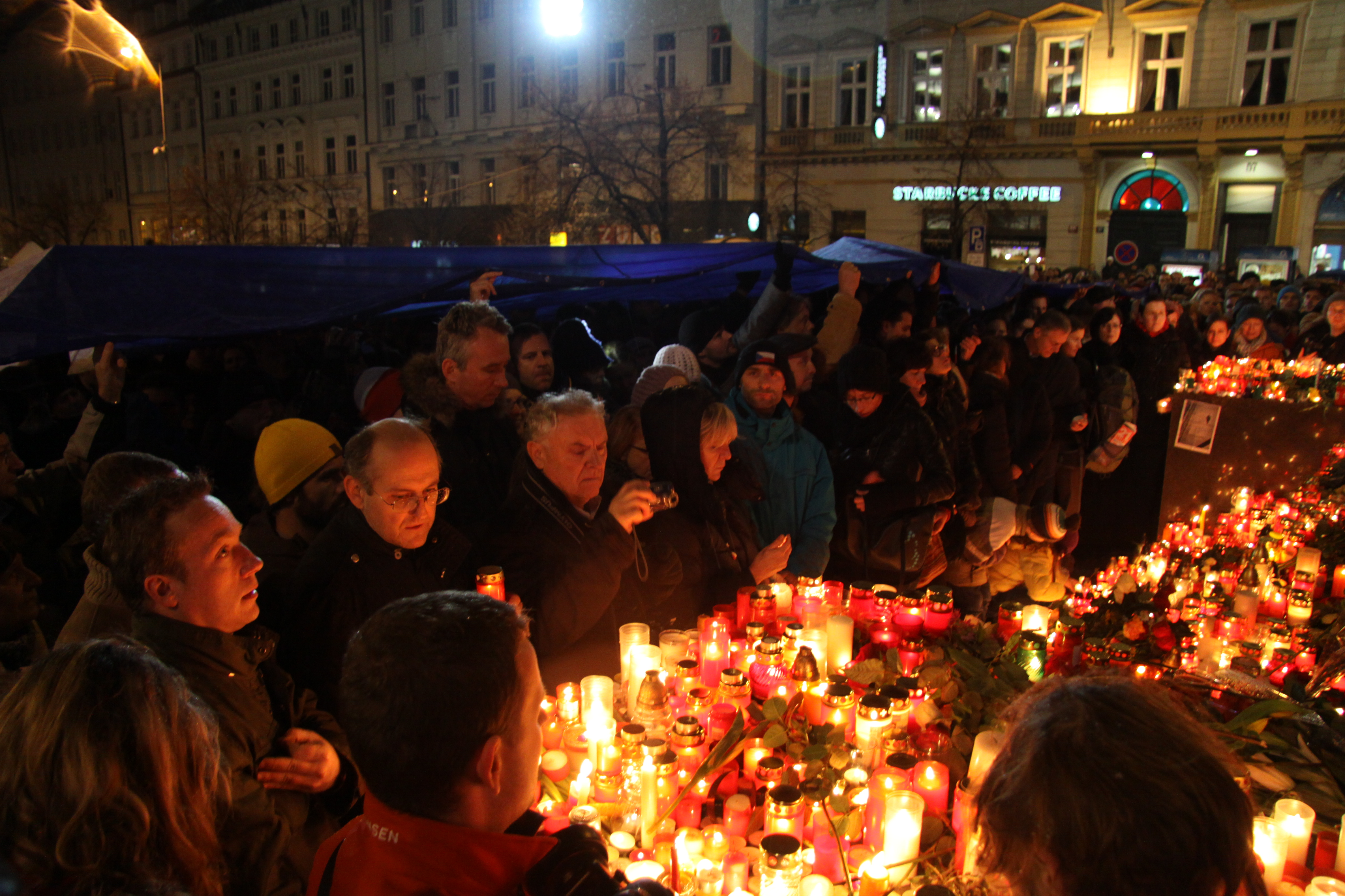 Memorial gathering of Václav Havel in Wenceslas Square, Prague, 2011